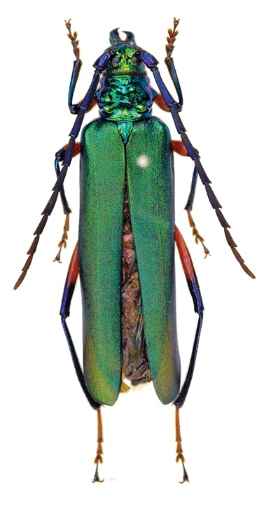 Aphrodisium tricoloripes Pic, 1925. Female, from Guizhou, dorsal view.